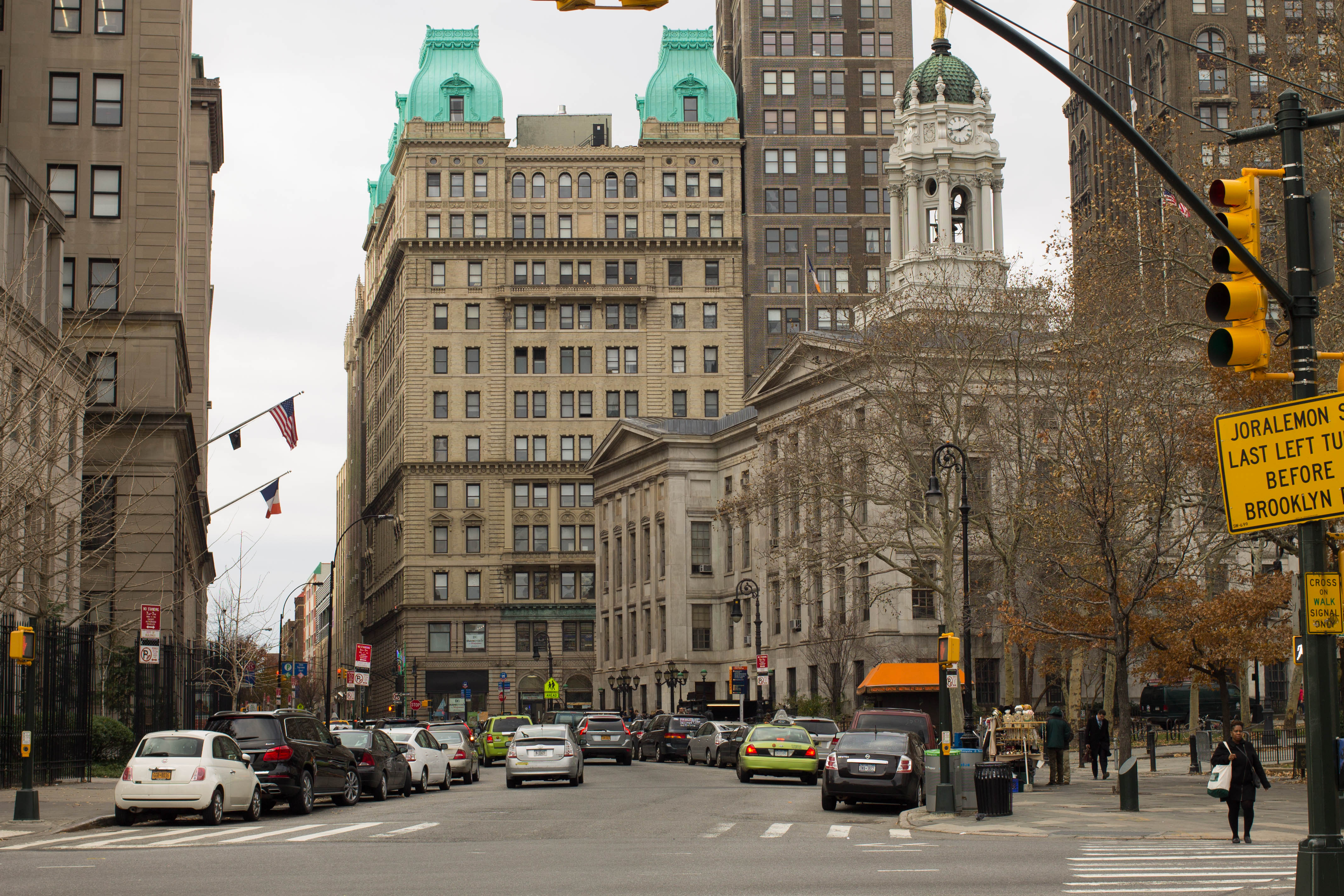 Downtown Brooklyn